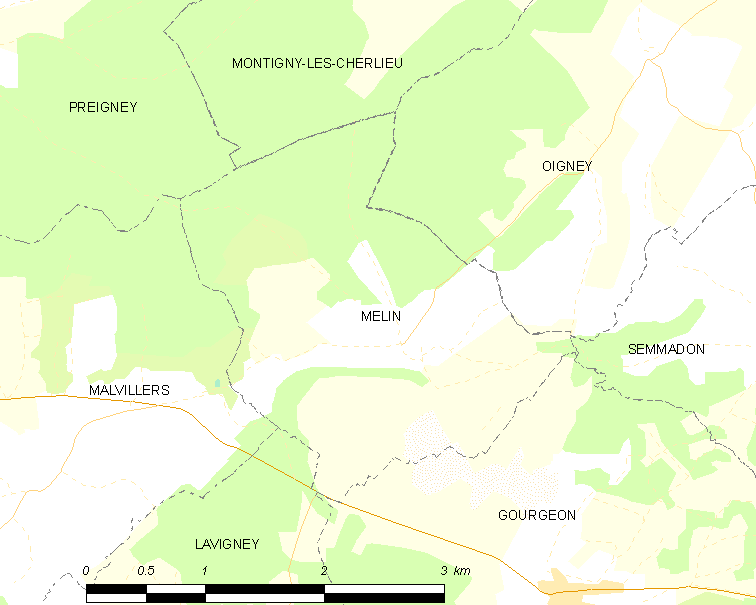 Map of French municipality